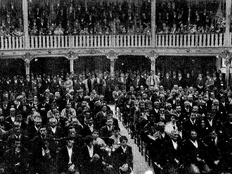 Vitoria (Alava), June 1911. Meeting of the Jaimist branch of Carlism; crowd listening to Esteban Bilbao speaking